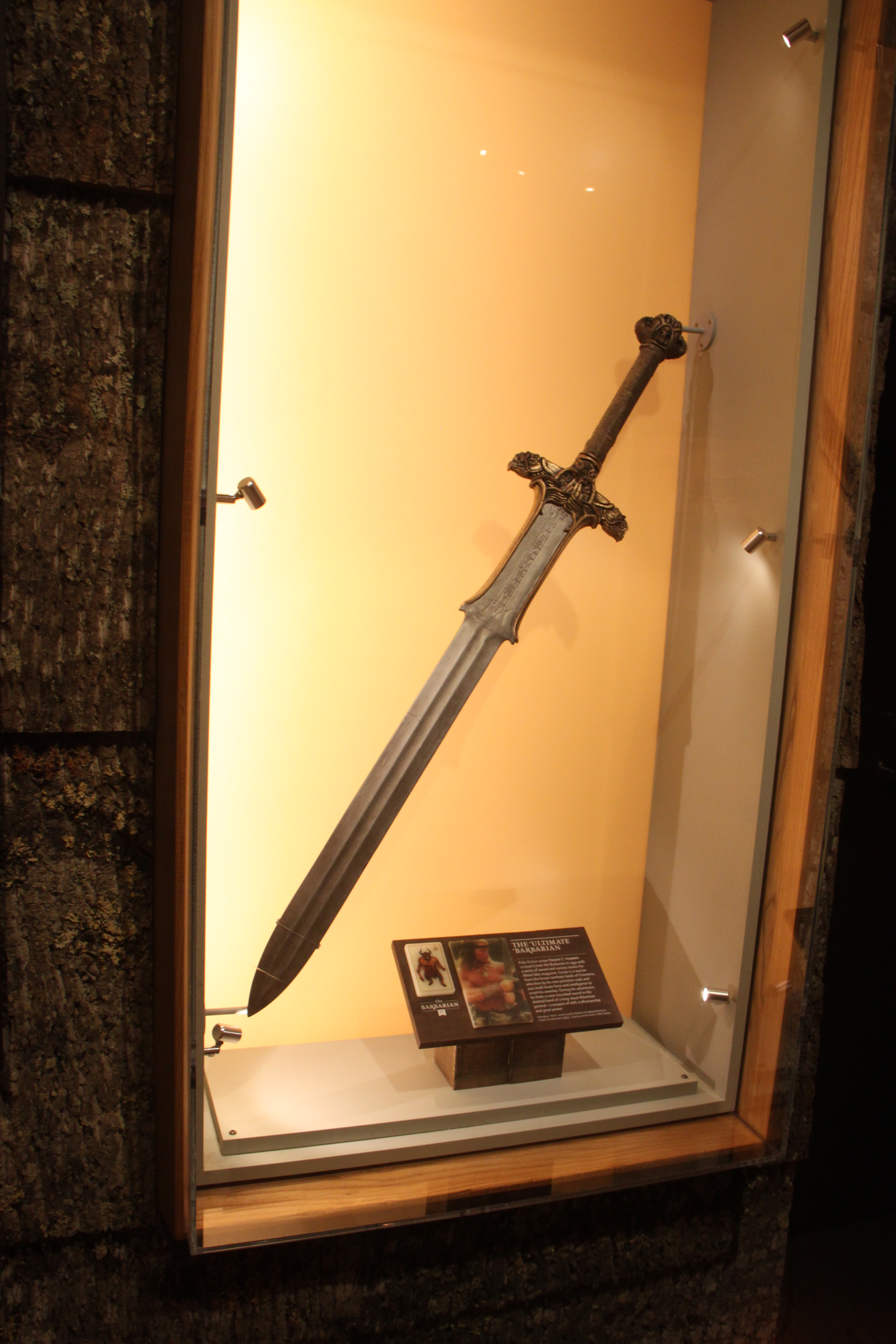 displayed at Fantasy: Worlds of Myth and Magic, Experience Music Project/Science Fiction Hall of Fame, Seattle.